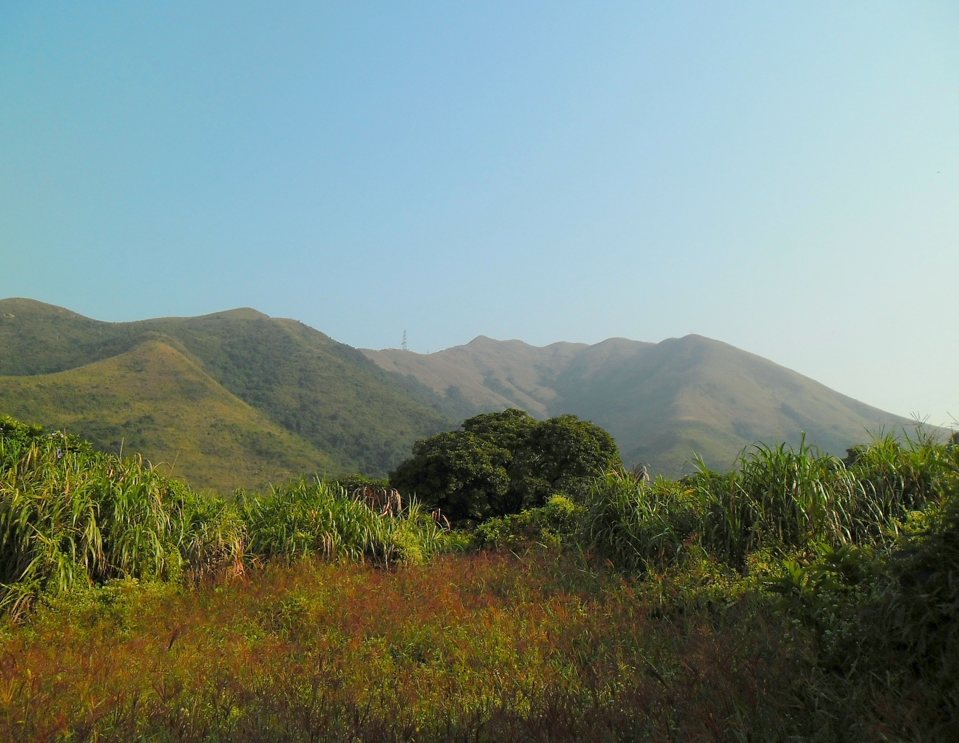 Robin's Nest, as viewed from Sha Tau Kok Road is a 492meter tall, wide hill, located just south of the Border between Shenzhen and Hong Kong. Captured by Earth100, image looks exactly the same as seen in real life.